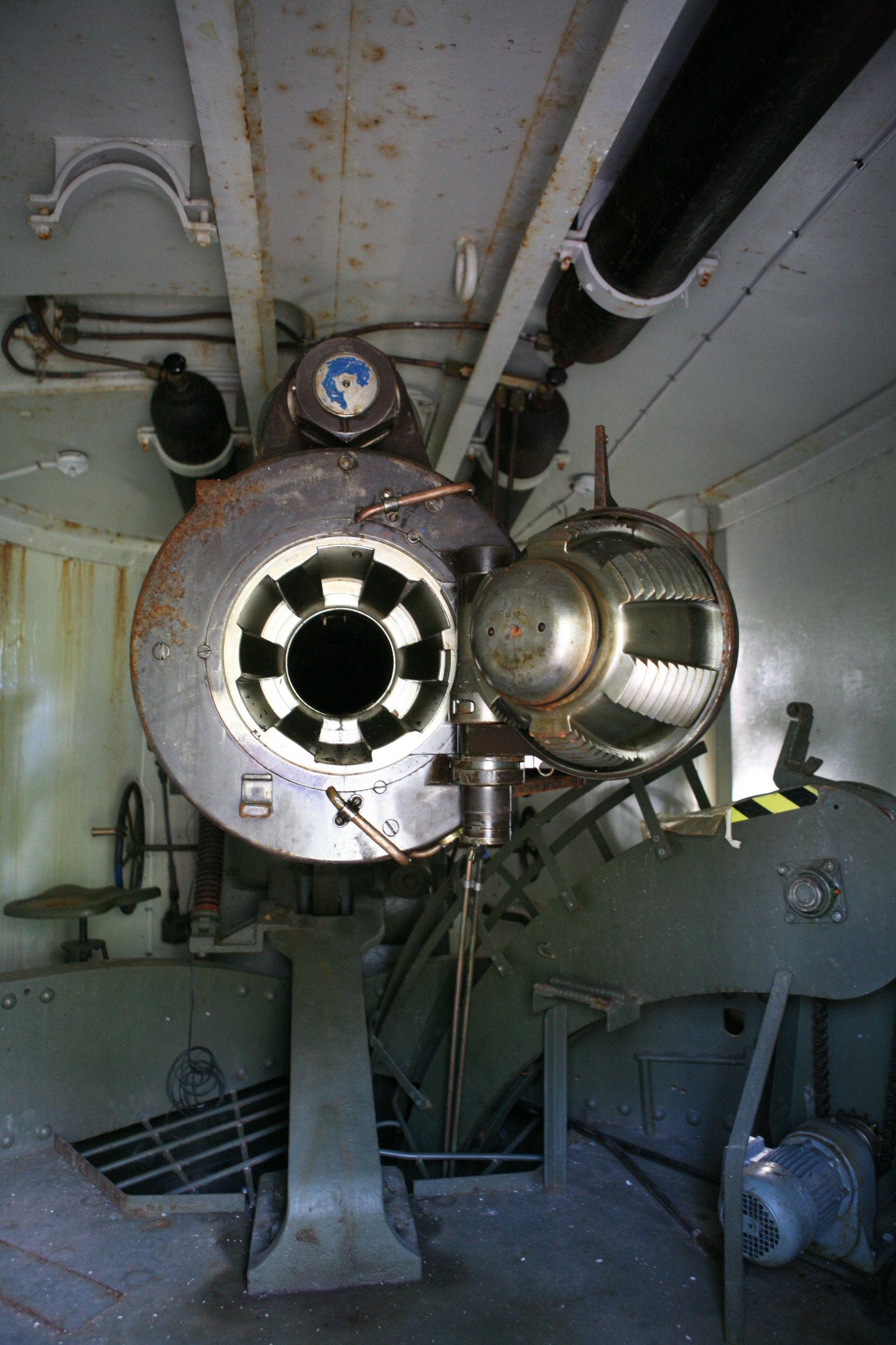 The interior of a 15,2cm/50cal. Bofors M/12 gun turret, formery of HMS Gustav V.